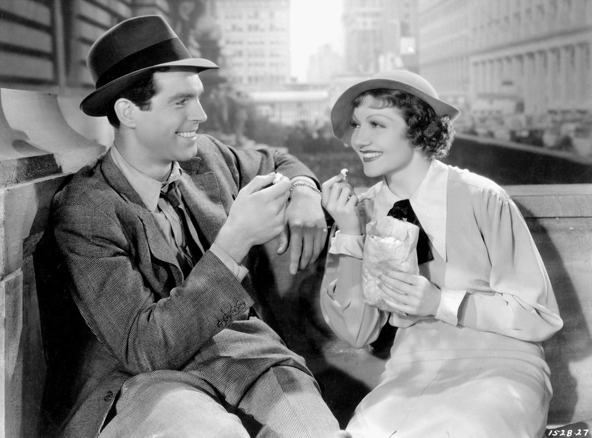 Promotional still from the 1935 film The Gilded Lily, published in National Board of Review Magazine. Fred MacMurray and Claudette Colbert.